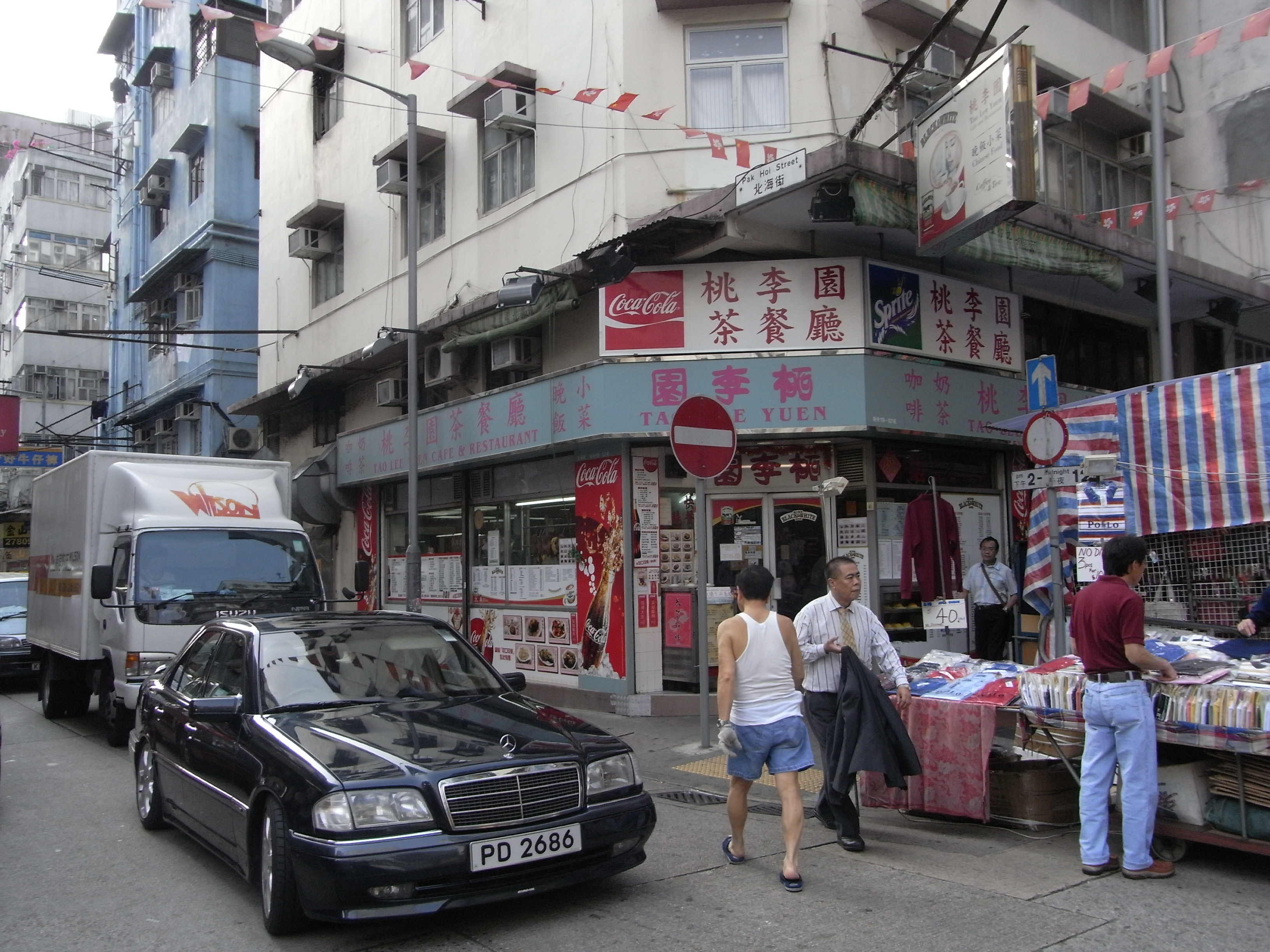 油麻地 廟街 & 北海街交界 - 桃李園茶餐廳